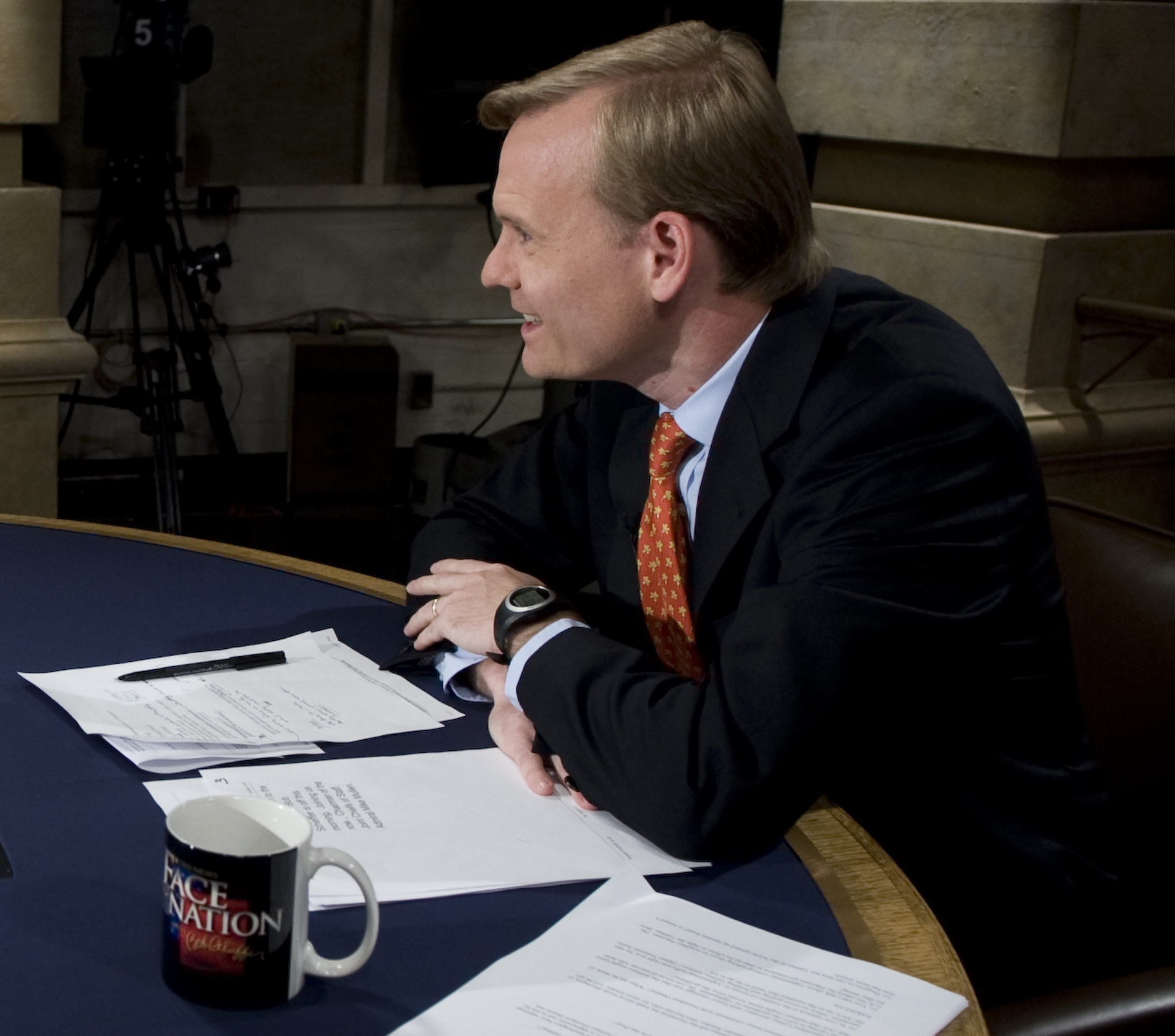 Chairman of the Joint Chiefs of Staff Navy Adm. Mike Mullen gives an interview to John Dickerson during the CBS news program Face the Nation in Washington, D.C., July 5, 2009. During the interview, Mullen discussed the wars in Iraq and Afghanistan, North Korea's recent missile tests and his recent visit to Russia. (DoD photo by Mass Communication Specialist 1st Class Chad J. McNeeley, U.S. Navy/Released)